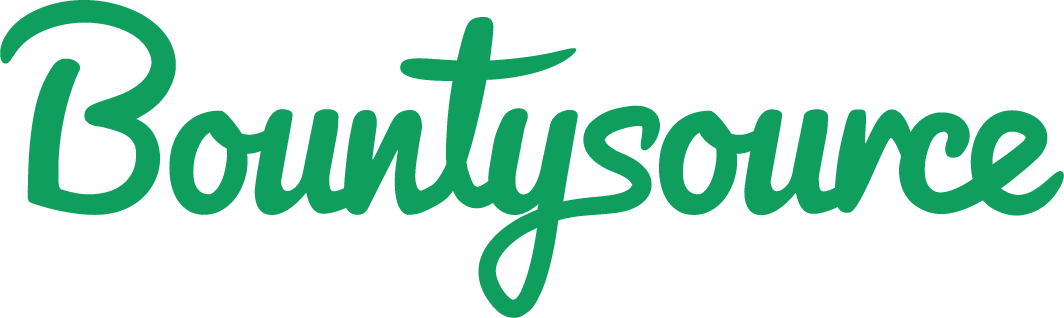 Bountysource Logo